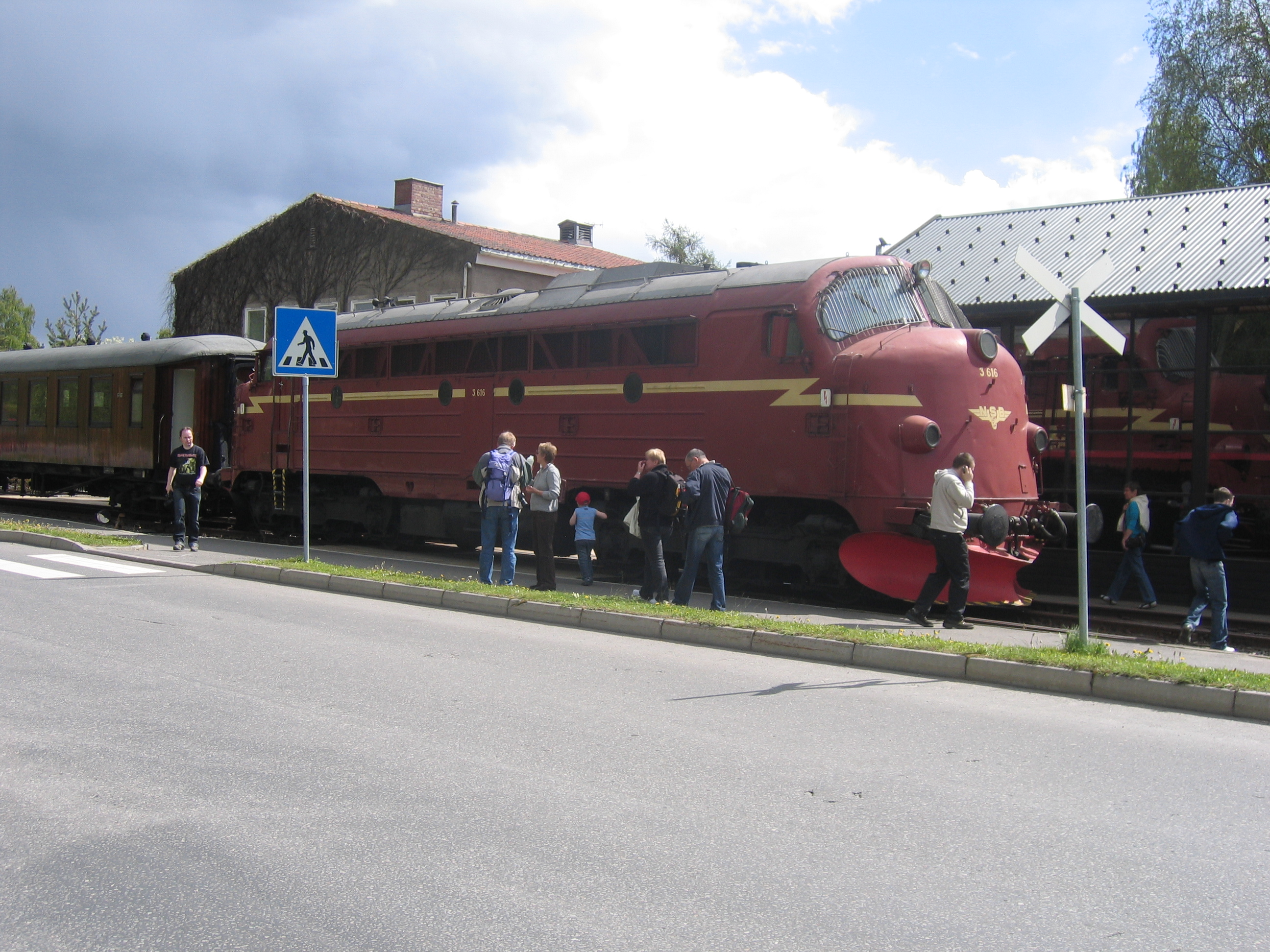 Diesel Locomotive Di. 3 616 at Hamar Railway Museum, Norway.